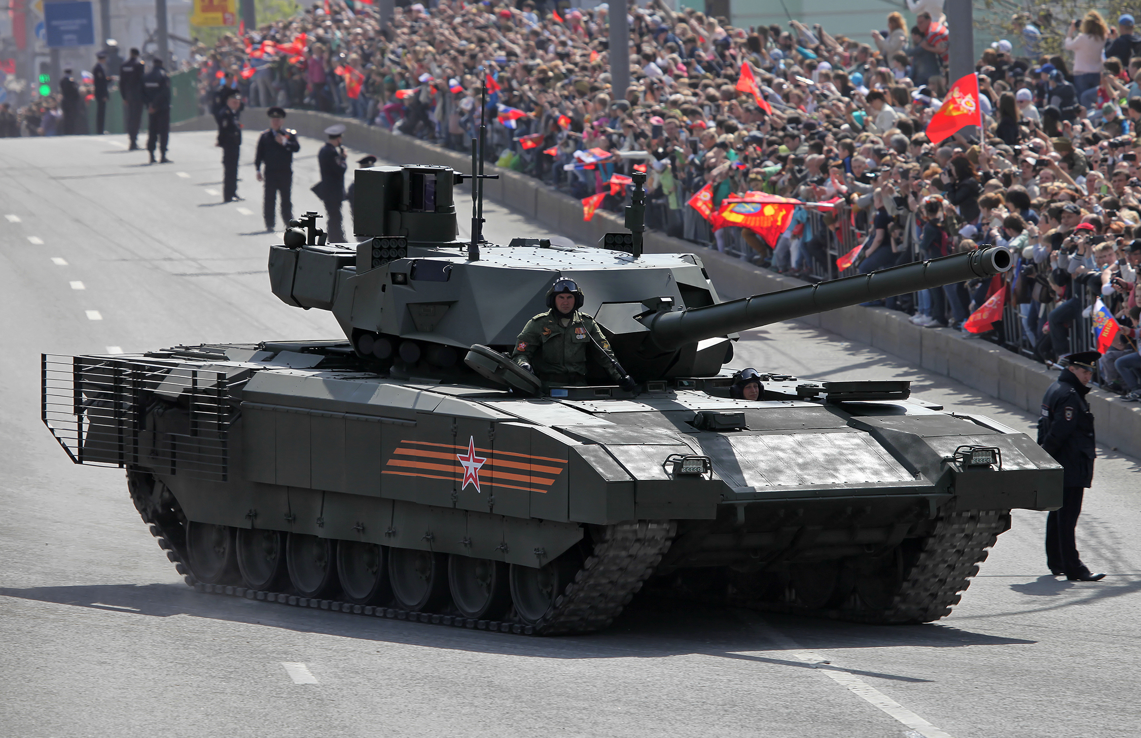 Main battle tank T-14 object 148 Armata (in the streets of Moscow on the way to or from the Red Square)